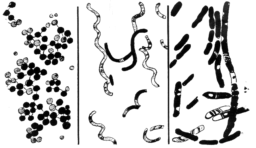 Line art drawing of bacteria; from left to right: cocci, spirilla, bacilli.